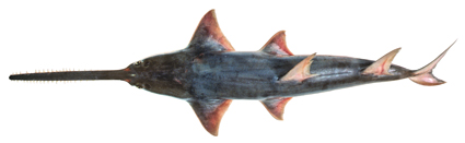 Anoxypristis сuspidata from the CSIRO National Fish COllection